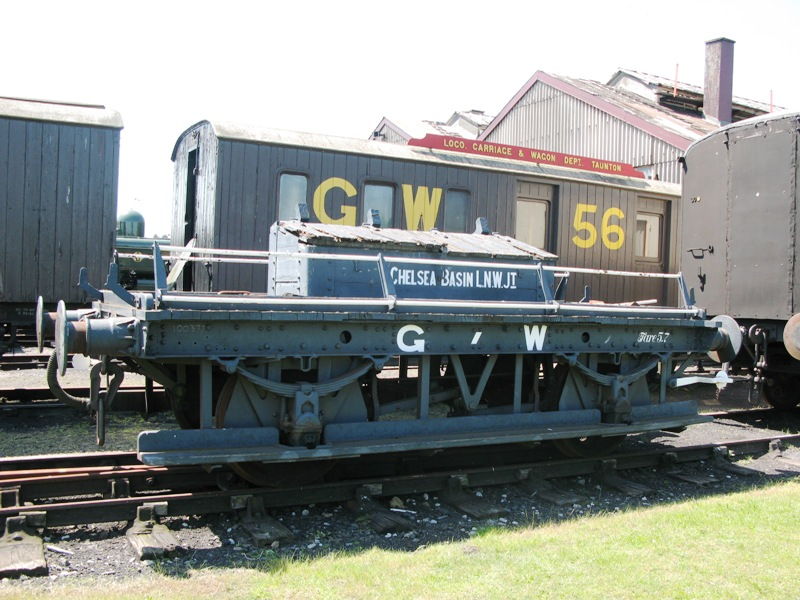 Great Western Railway diagram M4 shunters truck at Didcot Railway Centre, England.